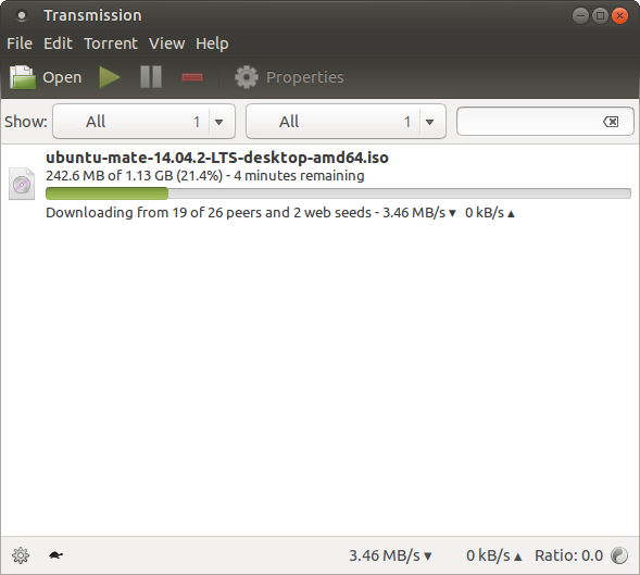 A screenshot of Transmission 2.82 running under Ubuntu MATE